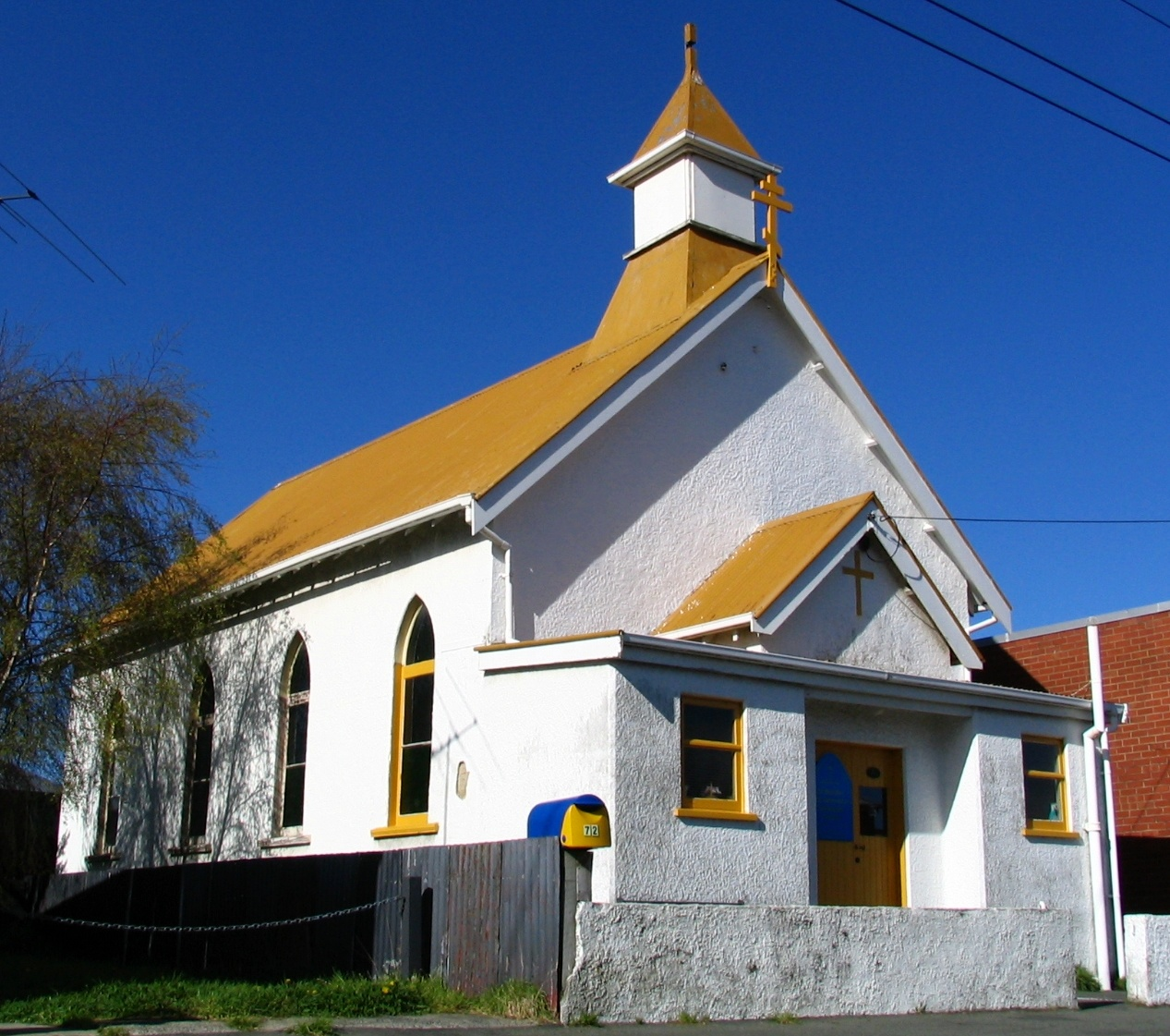 Exterior view of St Michael's Antiochian Orthodox Church, 72 Fingall St, Dunedin, New Zealand. First Eastern Orthodox Church in New Zealand, built in 1911.